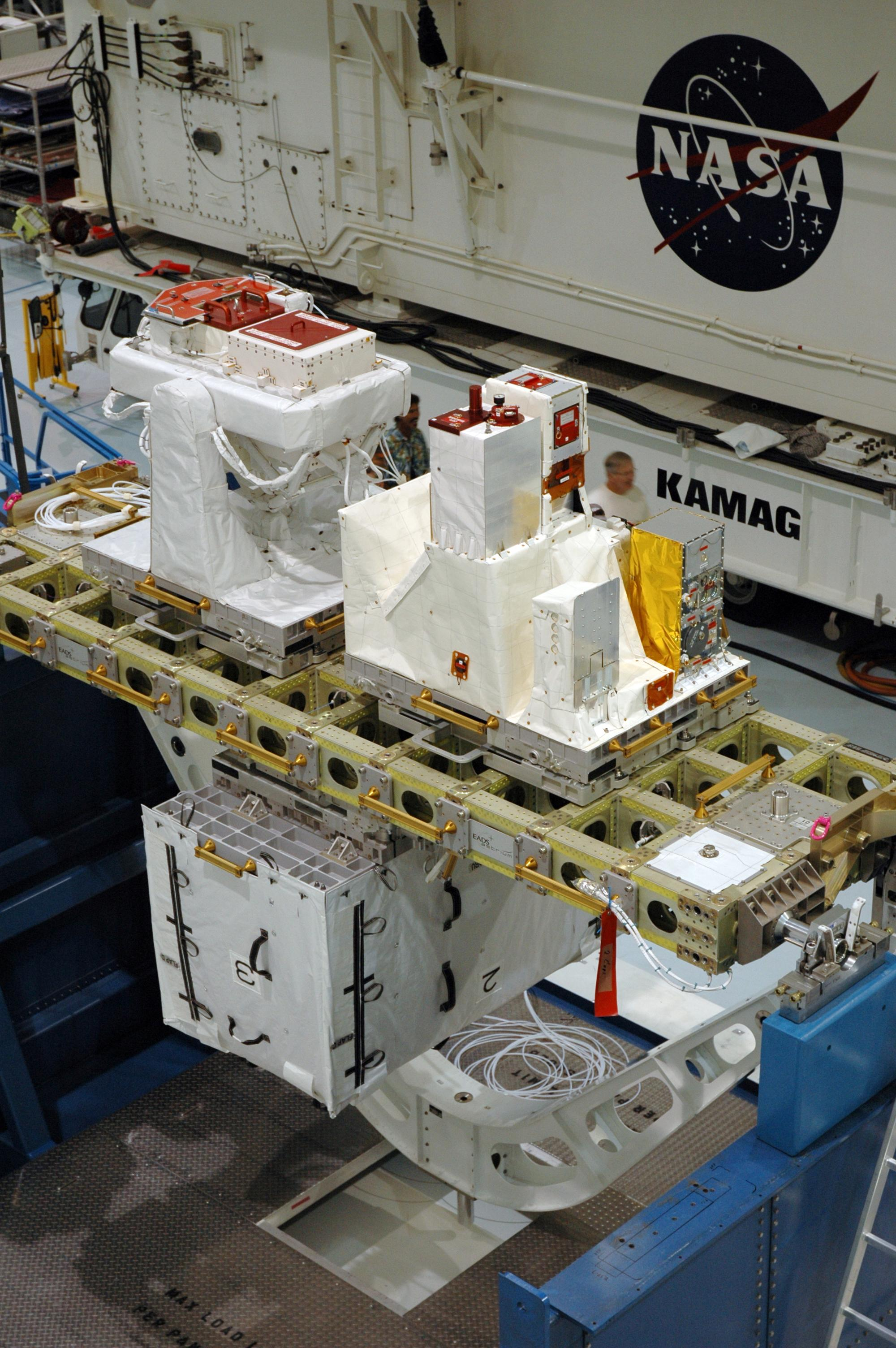 In the Space Station Processing Facility at NASA's Kennedy Space Center, the integrated cargo carrier-lite, or ICC-L, is ready to be lifted and placed in the payload canister for mission STS-122. Joining the primary payload, the Columbus module, the ICC-L is an unpressurized cross-bay carrier providing launch and return transportation with the space shuttle. It rests on a keel yoke assembly, seen underneath. The ICC-L carries three elements: a nitrogen tank assembly that is part of the external active thermal control system on the International Space Station, the European technology Exposure Facility composed of nine science instruments and an autonomous temperature measurement unit, and the SOLAR payload designed for sun observation. The nitrogen tank assembly is mounted underneath. The exposure facility is seen at left on top, and the SOLAR is on the right. The SOLAR will be transferred and stowed on the Columbus module during the third spacewalk of the mission. STS-122 is targeted for launch on Dec. 6 on space shuttle Atlantis.